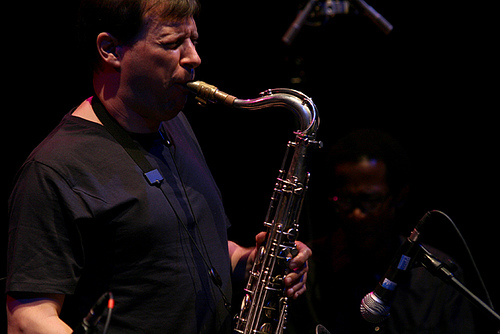 Chris Potter playing with the Dave Binney Group in Budapest (Hungary) on May 17, 2008.